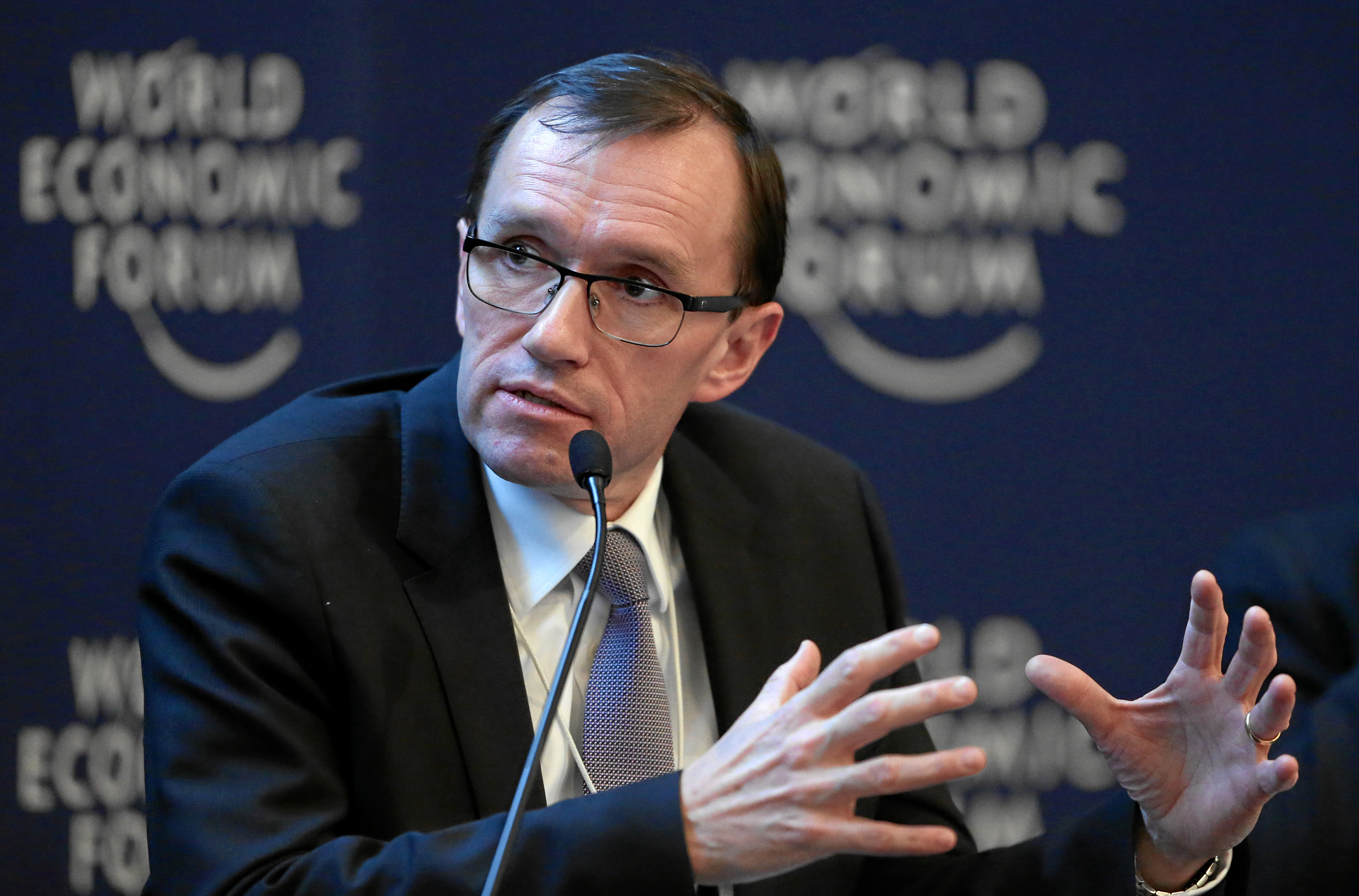 DAVOS/SWITZERLAND, 26JAN13 - Espen Barth Eide, Minister of Foreign Affairs of Norway is seen during the Session 'Global Security Outlook' at the Annual Meeting 2013 of the World Economic Forum in Davos, Switzerland, January 26, 2013.. . Copyright by World Economic Forum. . Moritz Hager